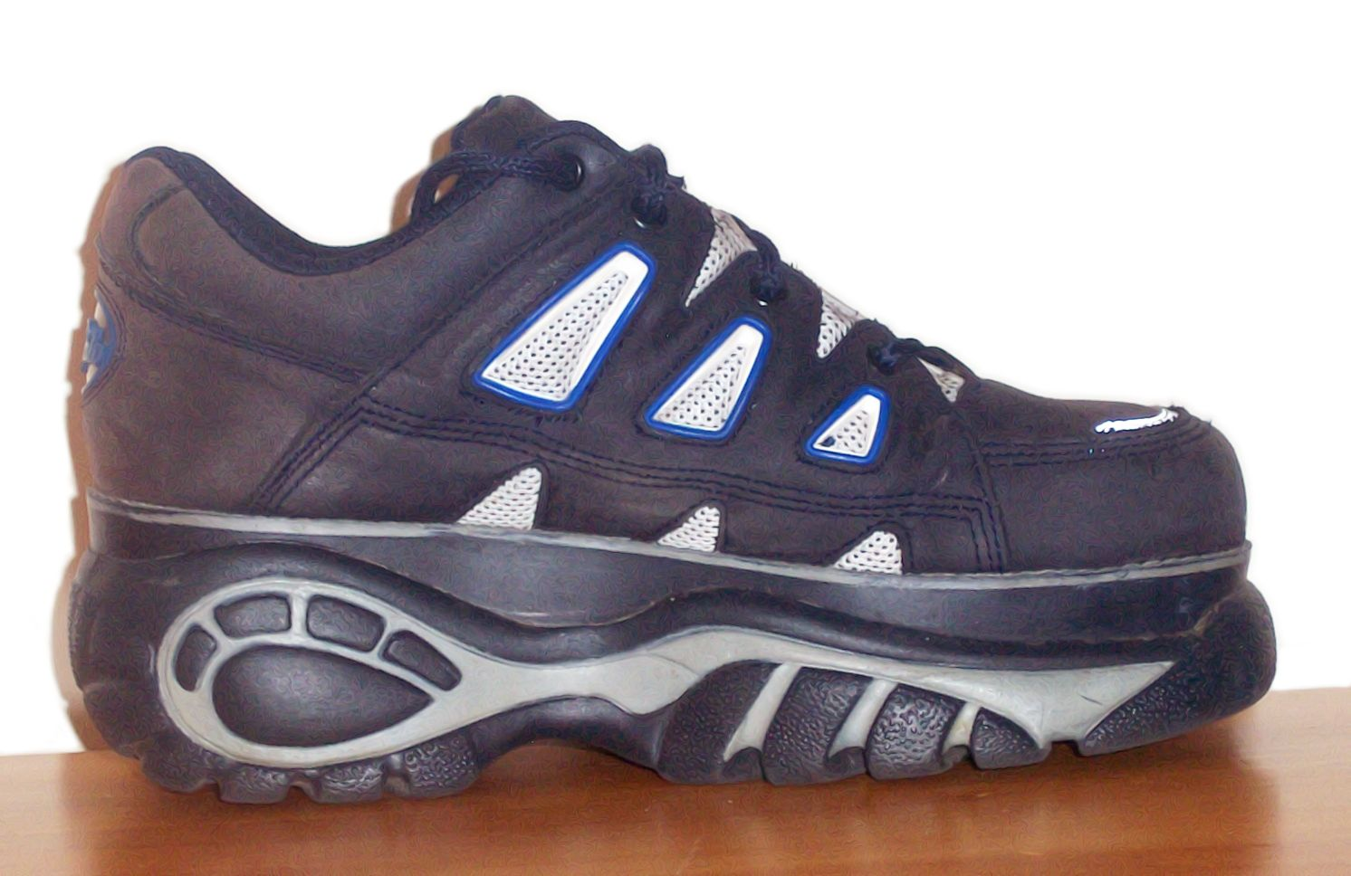 Trainer with wedge platform sole, made by the German company Buffalo Boots. Model 1339. Colour blue with white applications.